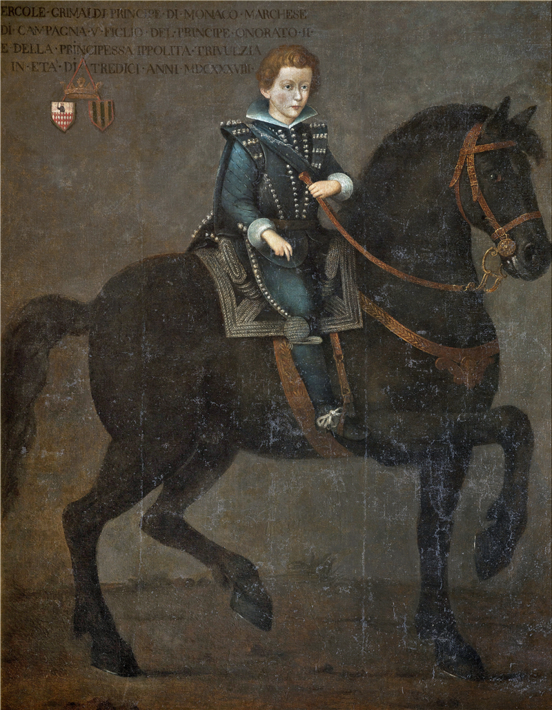 Portrait of Ercole, Marquis of Baux (1623-1651), heir of Honoré II, Prince of Monaco